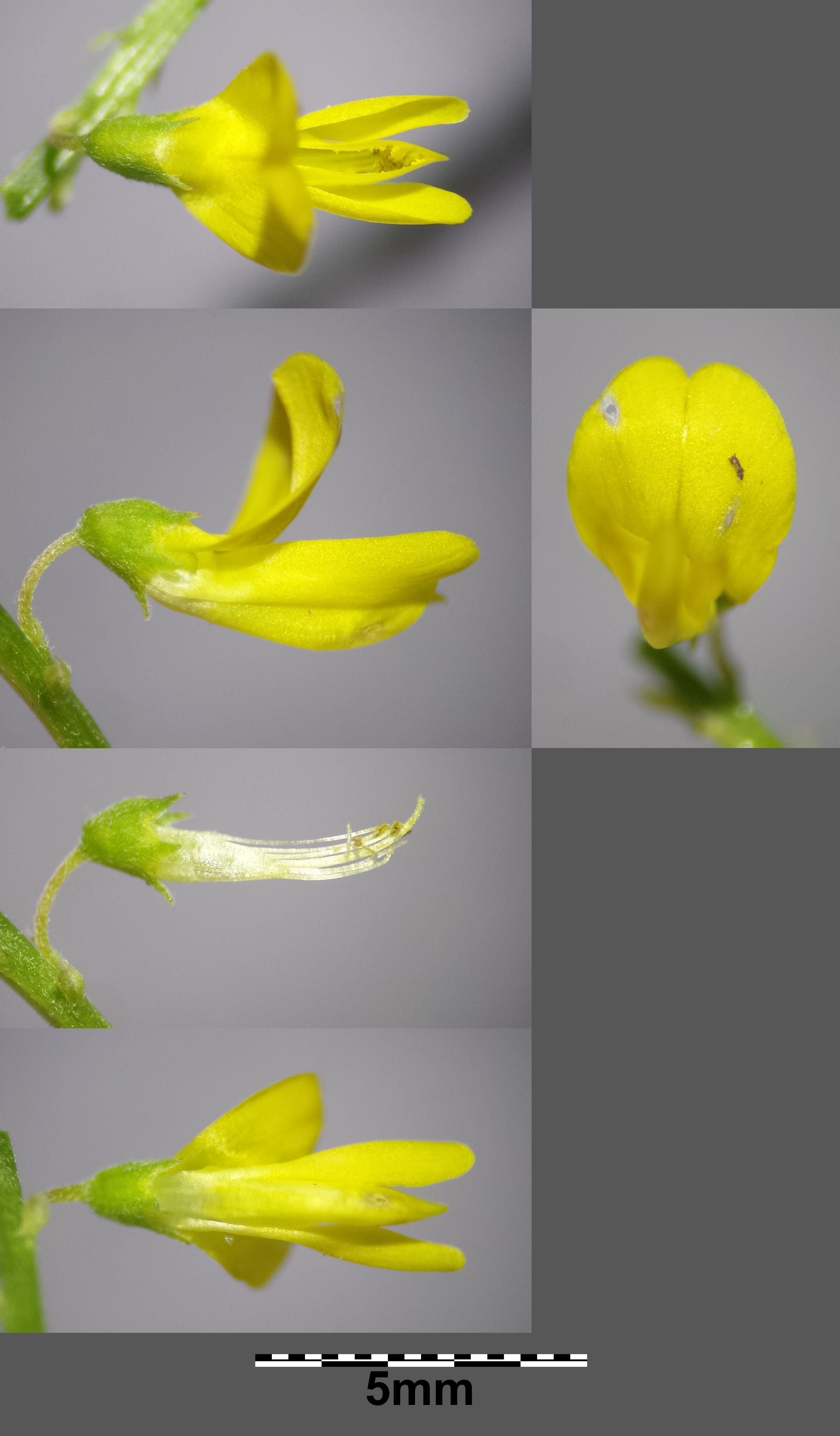 Flower Taxonym: Melilotus altissimus ss Fischer et al. EfÖLS 2008 ISBN 978-3-85474-187-9 Location: next to pond near Goldenes Bründl, Rohrwald, district Korneuburg, Lower Austria - ca. 225 m a.s.l. Habitat: wayside